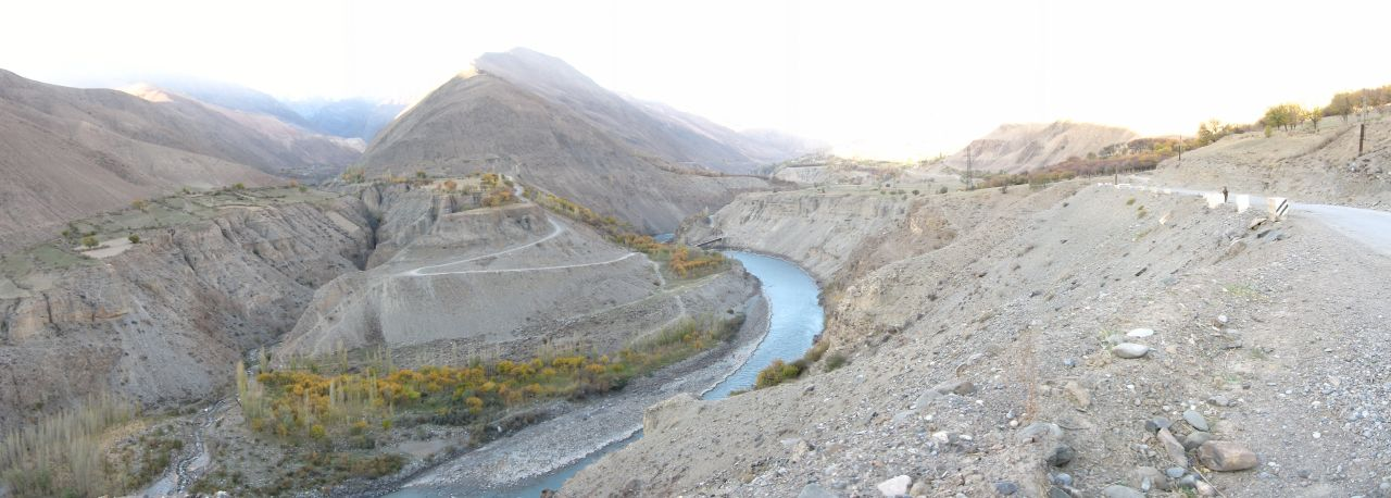 Mountains near Ayni